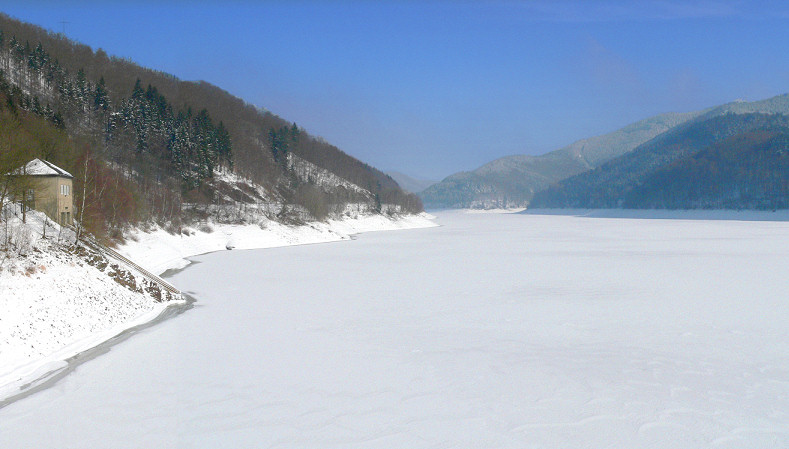 The Oder Reservoir in winter, seen from the dam. Harz mountains, Germany